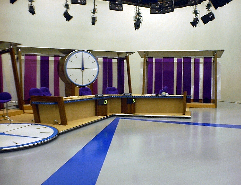 A photo of the Countdown set before the show's production has begun, taken by my father on December 3 en:2003, which was when the show I appeared on was recorded.